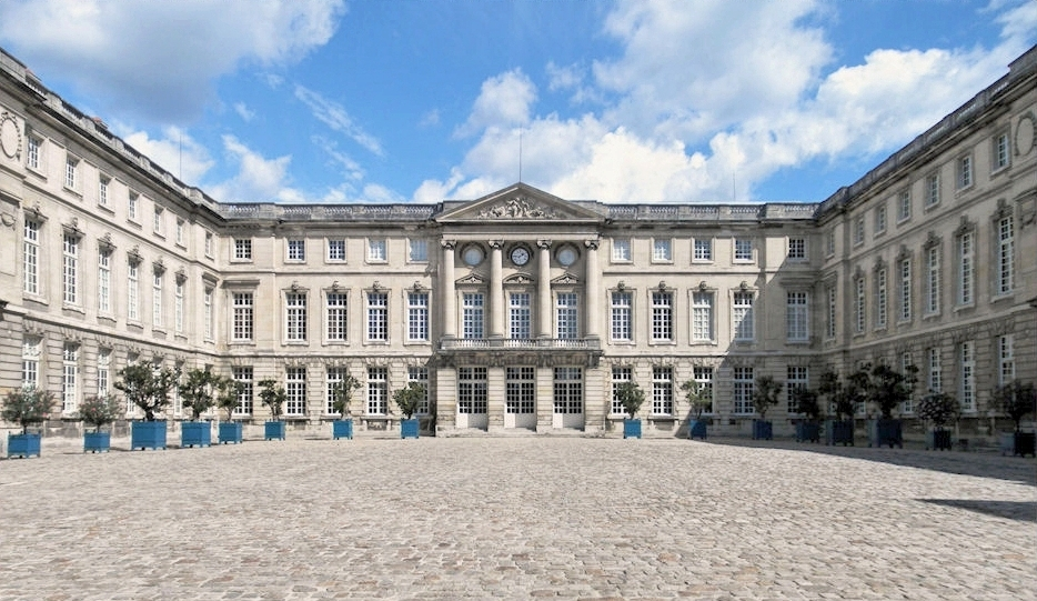 Imperial Palace of Compiègne, 60200 Compiègne, France